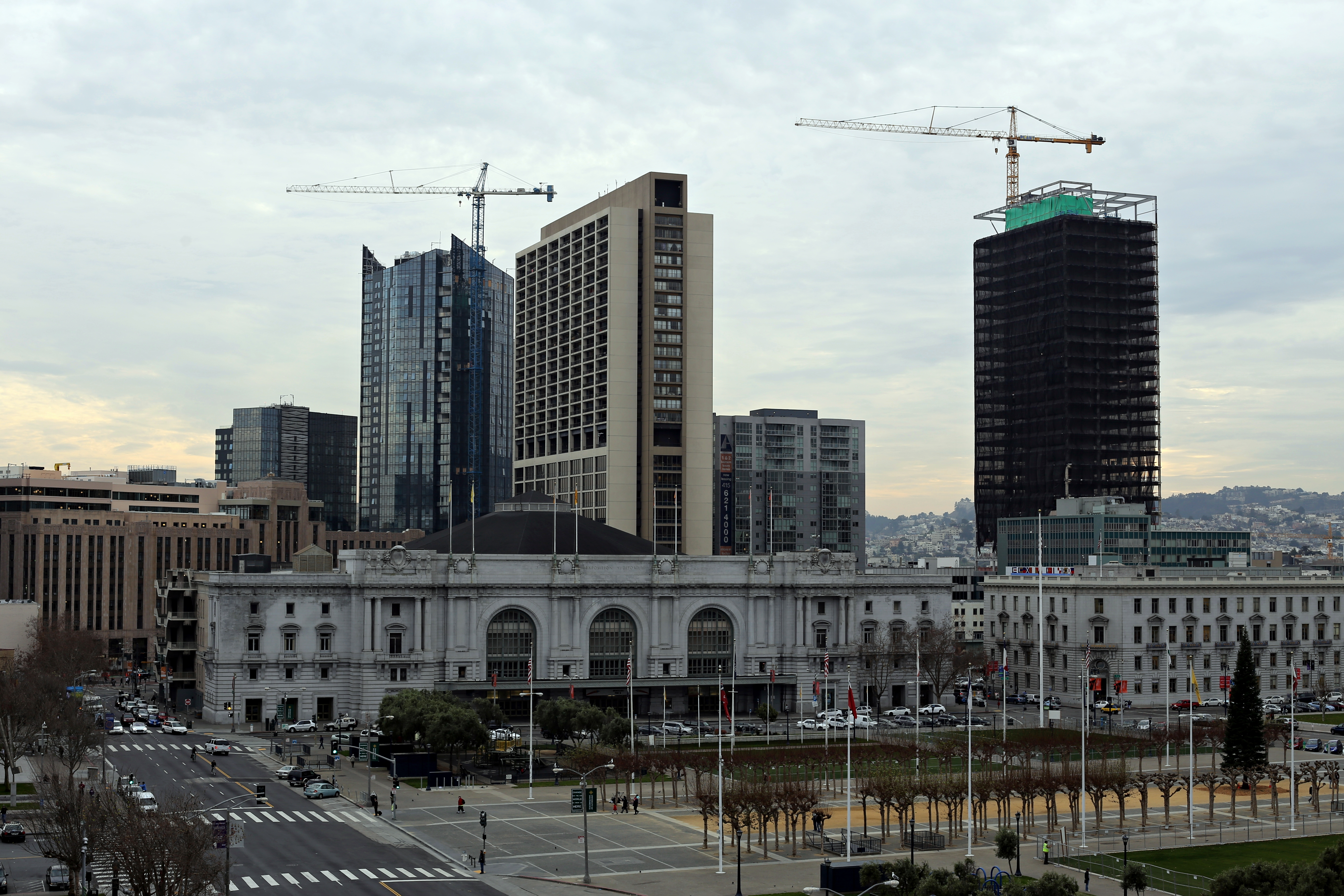 San Francisco, California, USA